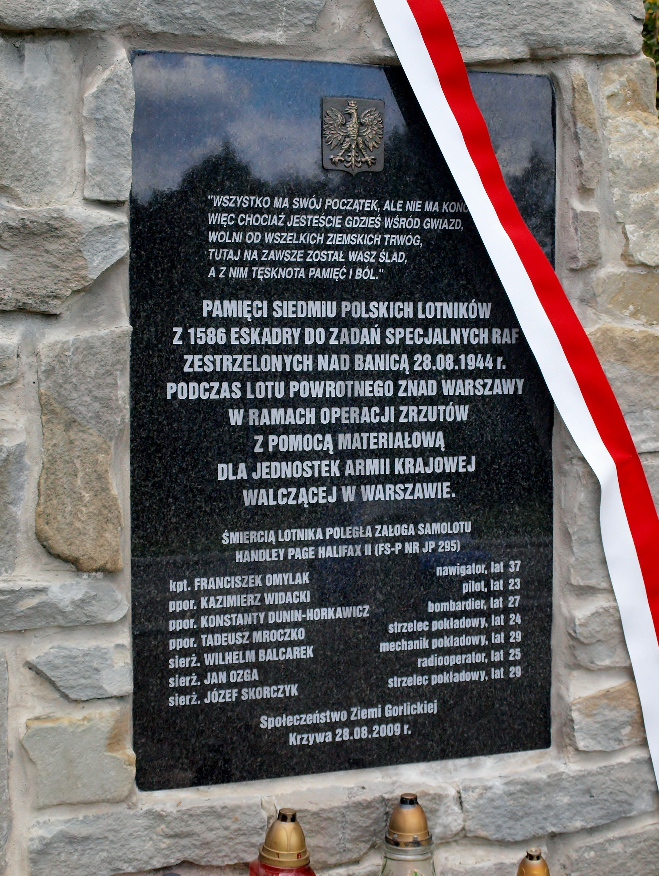 Banica - a commemorative plaque on the cross-monument “Memory of seven Polish airmen of 1586 RAF Squadron for special destiny, shot down over Banica 28 August 1944, during the return flight from over Warsaw, action of discharges of material help for the military units AK /Armia Krajowa – Polish Home Army/, fighting in Warsaw”